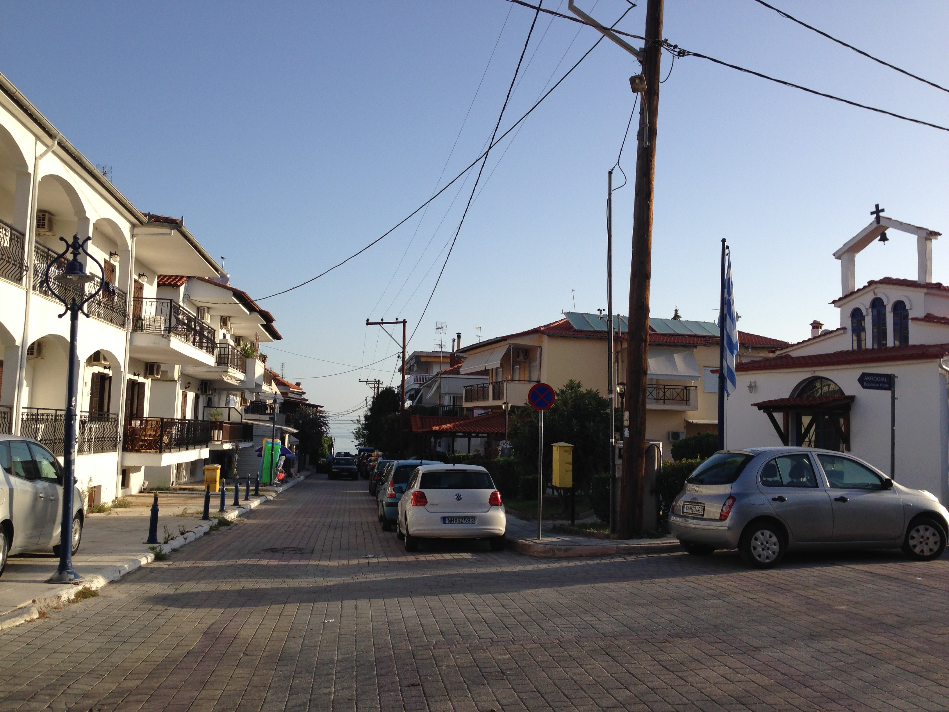 Polychrono (2017).